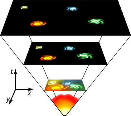 Shows slices of expansion of universe without an initial singularity